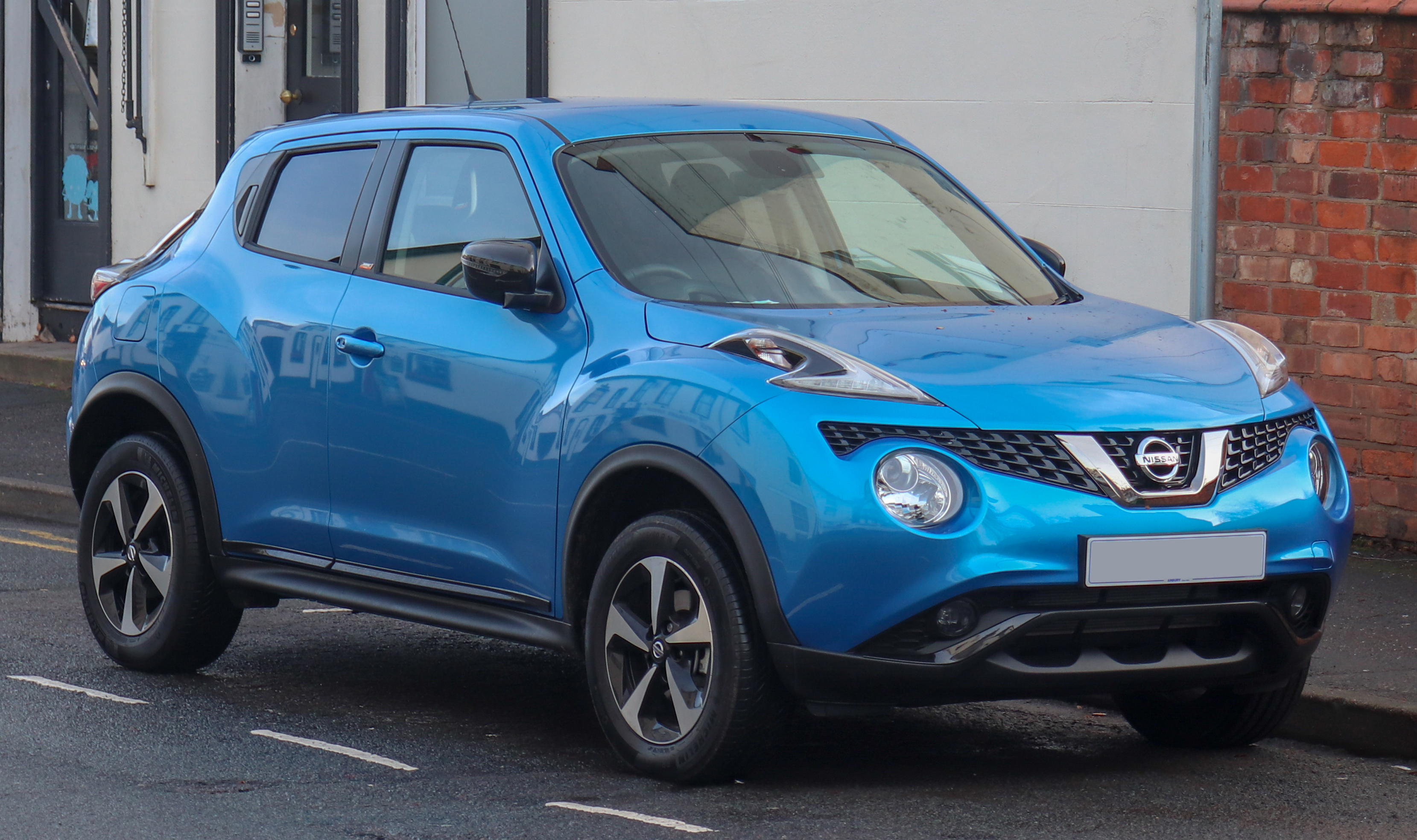 2018 Nissan Juke Bose Personal Edition 1.6 Front Taken in Leamington Spa